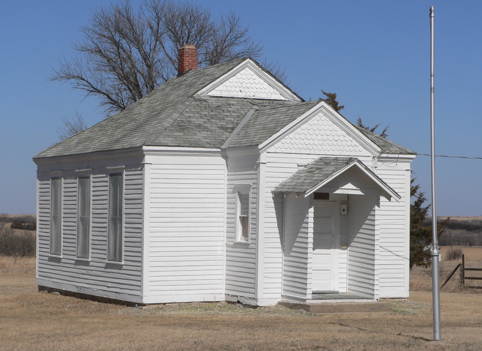 District 10 School, located at intersection of county roads 559 Av and 717 Rd in rural Jefferson County, Nebraska. School building, seen from southwest.